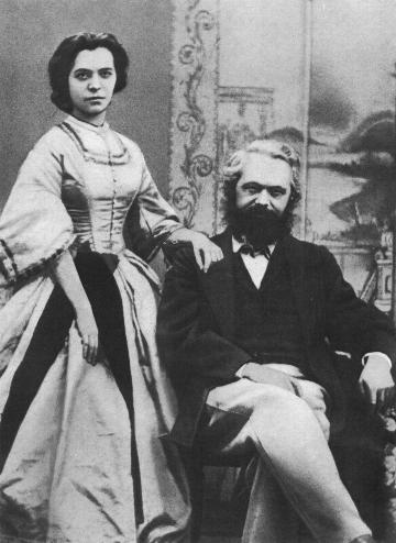 Karl & his daughter Jenny Caroline